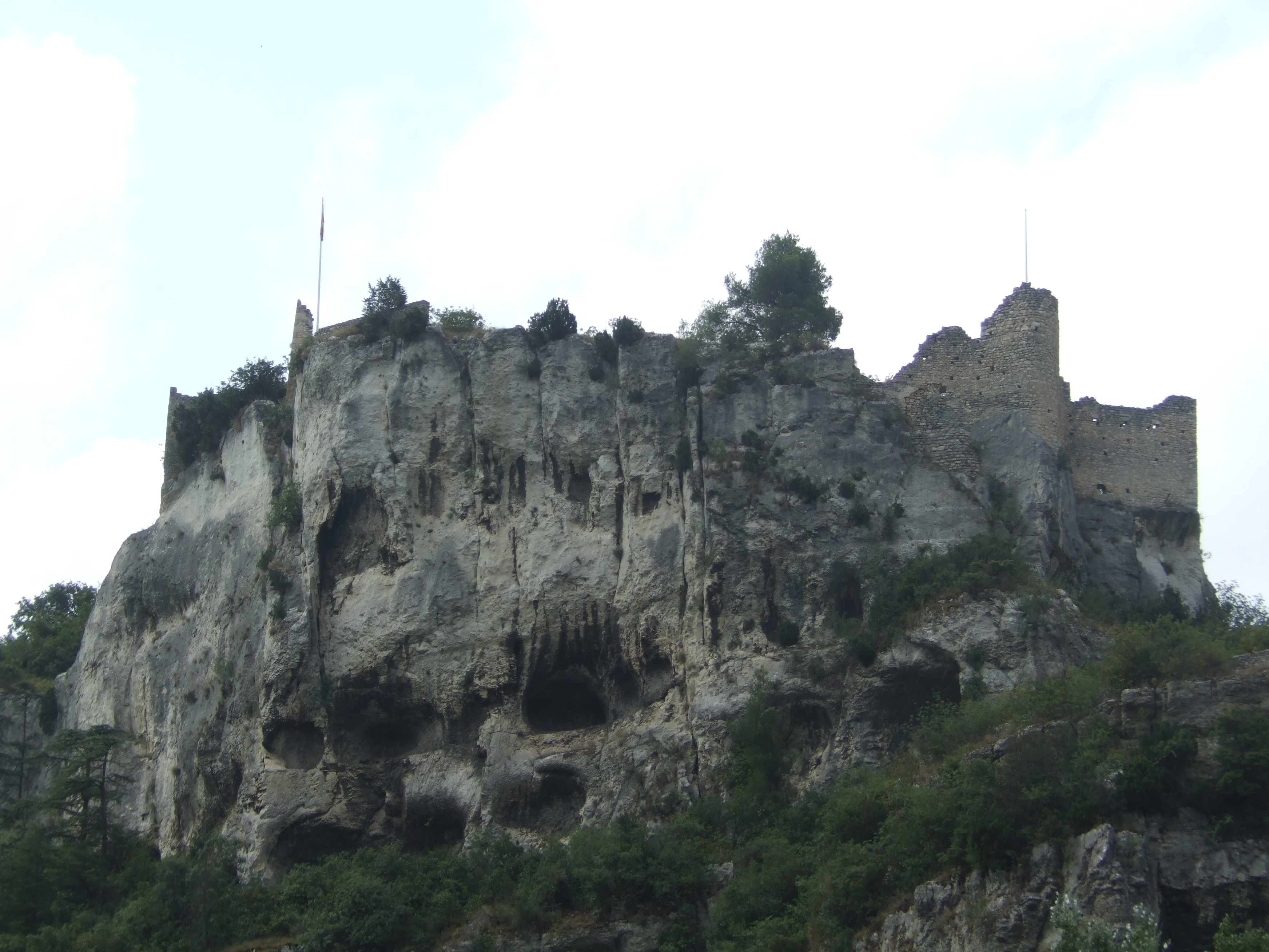 Old castle at Fontaine-de-Vaucluse (France)